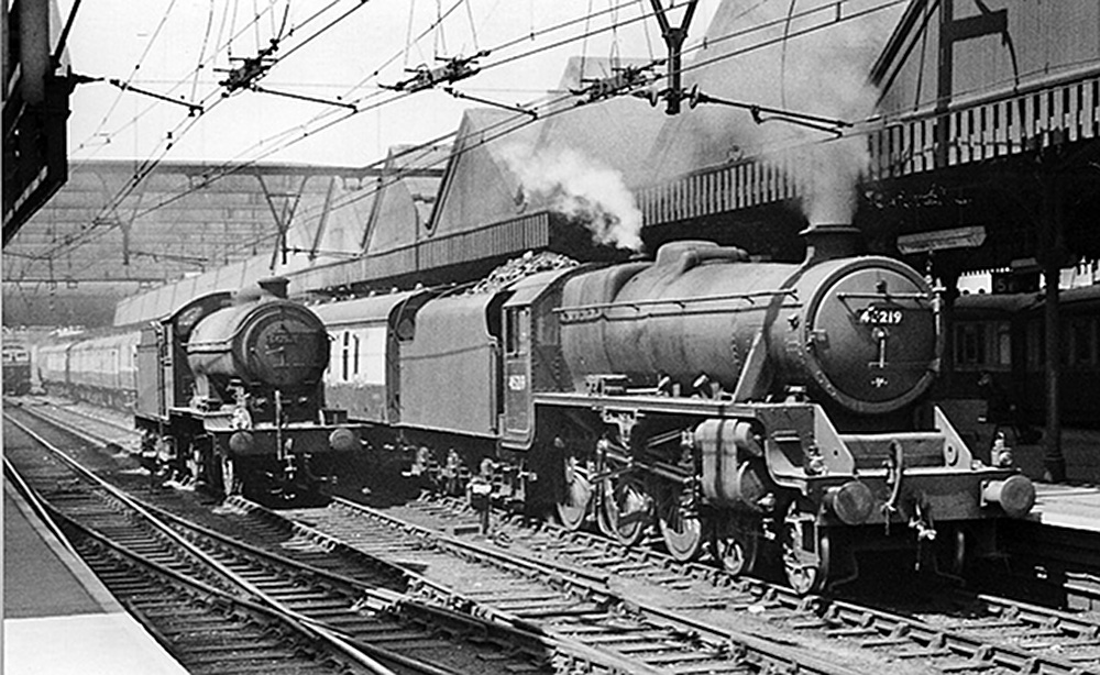 Sheffield Victoria Station, with train. View NW, towards Penistone and Manchester (London Road); ex-Great Central Manchester - Sheffield main line. The route had been electrified since June 1954, but was still traversed from Penistone by the steam-hauled 'South Yorkshireman', which ran from Bradford (Exchange), Halifax and Huddersfield, then on from Sheffield to London Marylebone via Nottingham Victoria and Leicester Central. The express seen here, headed by Stanier Class 5 4-6-0 No. 45219, is NOT - however - the 'South Yorkshireman', but the 13.55 to Leicester Central, which had originated at Manchester London Road at 12.40, hauled by an electric locomotive. On the Through line is Class J39 0-6-0 No. 64753, and an electric locomotive is just in view behind.